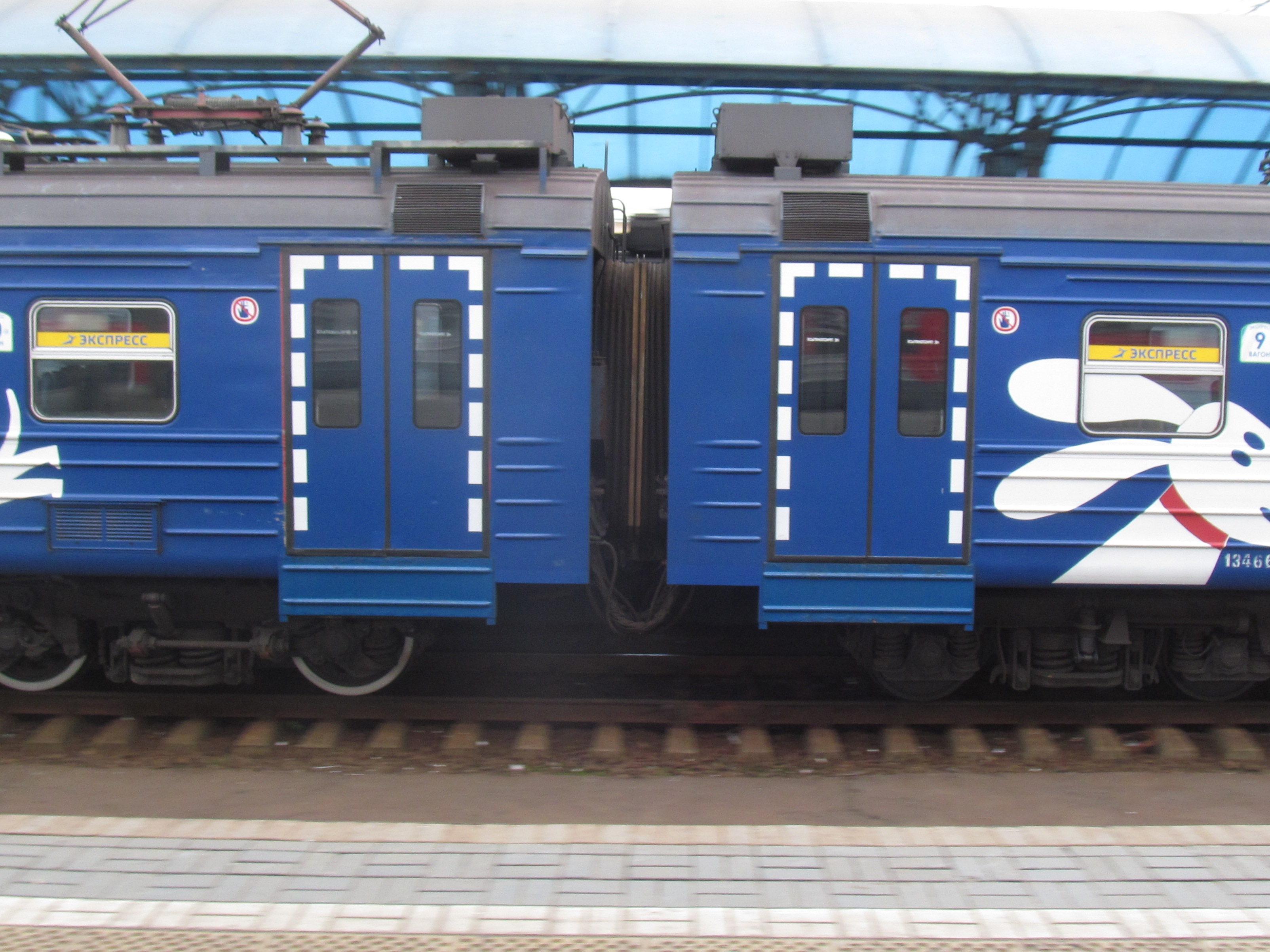 ED4M-0405 EMU. Inter-car gangway and entry doors